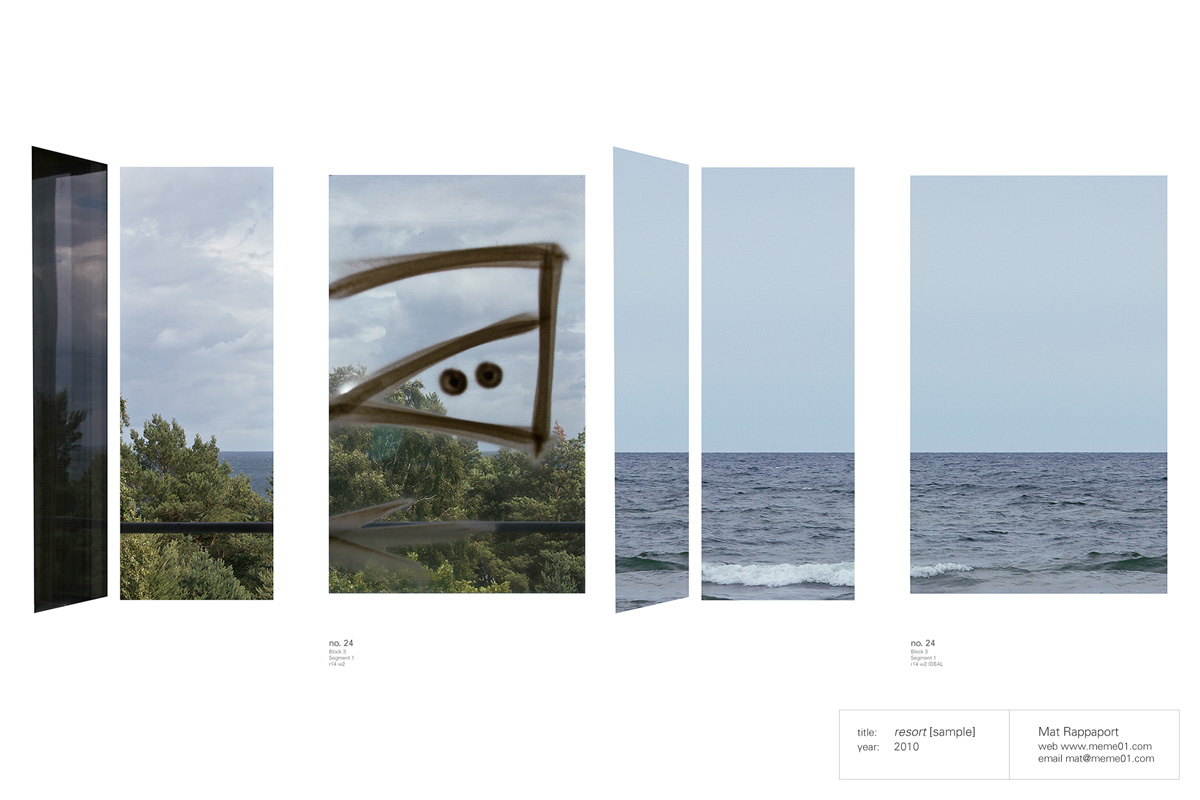 This image is part of Mat Rappaport's "resort" photo archive project and was shot on location in Prora Germany, the site of a never completed Nazi resort. The "resort" project is part of the larger multi-modal documentary project titled "touristic intents".